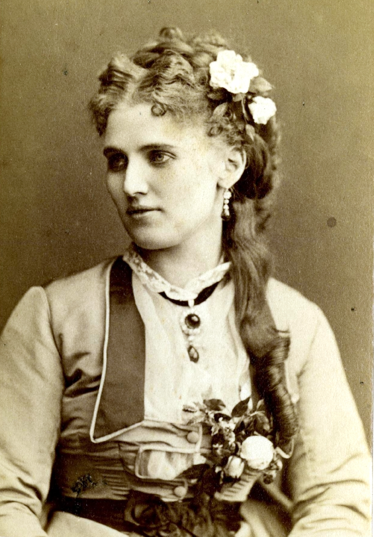 Christina Nilsson